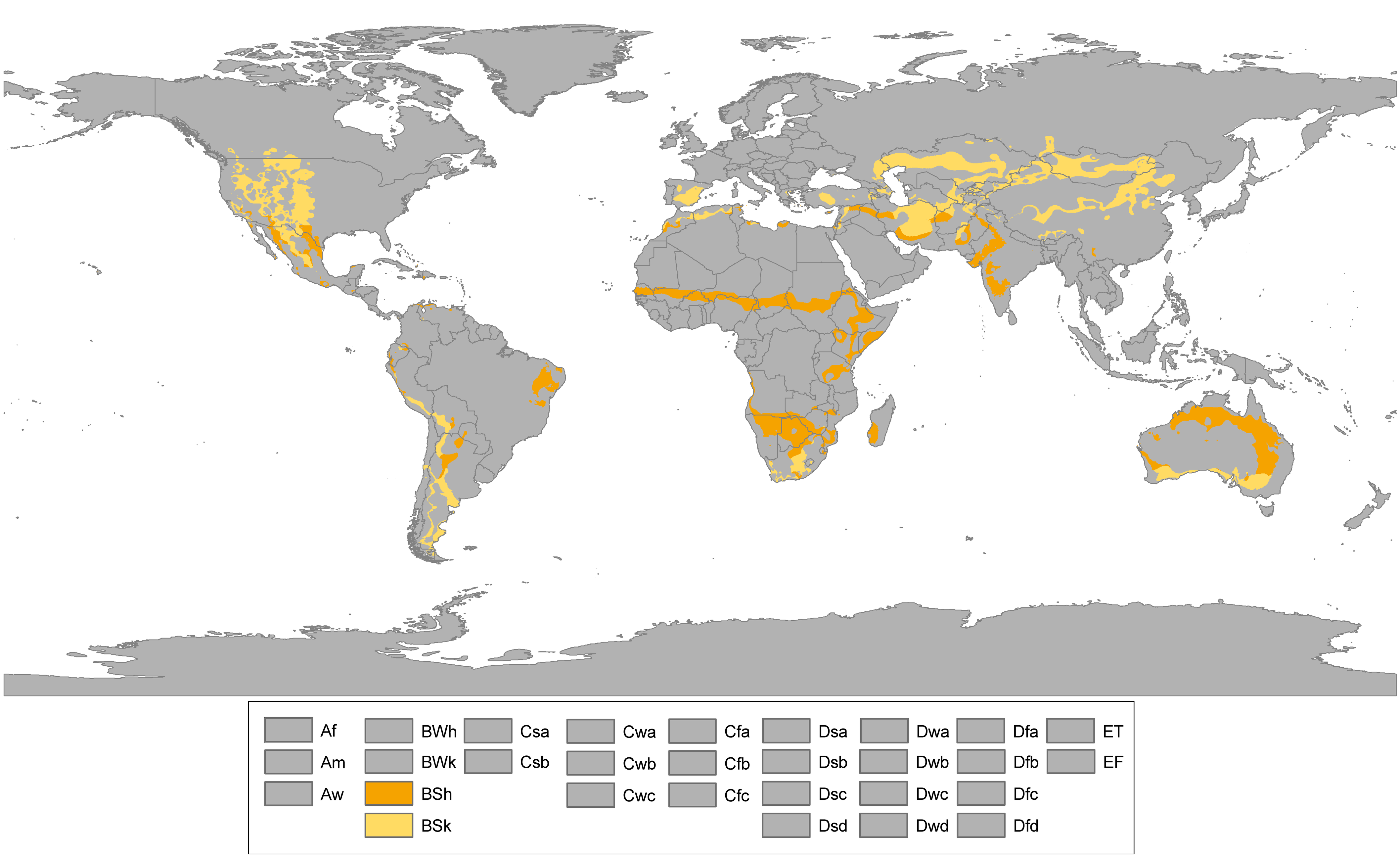 Updated world map of the Köppen-Geiger climate classification. Semi-arid climate (BSh, BSk)